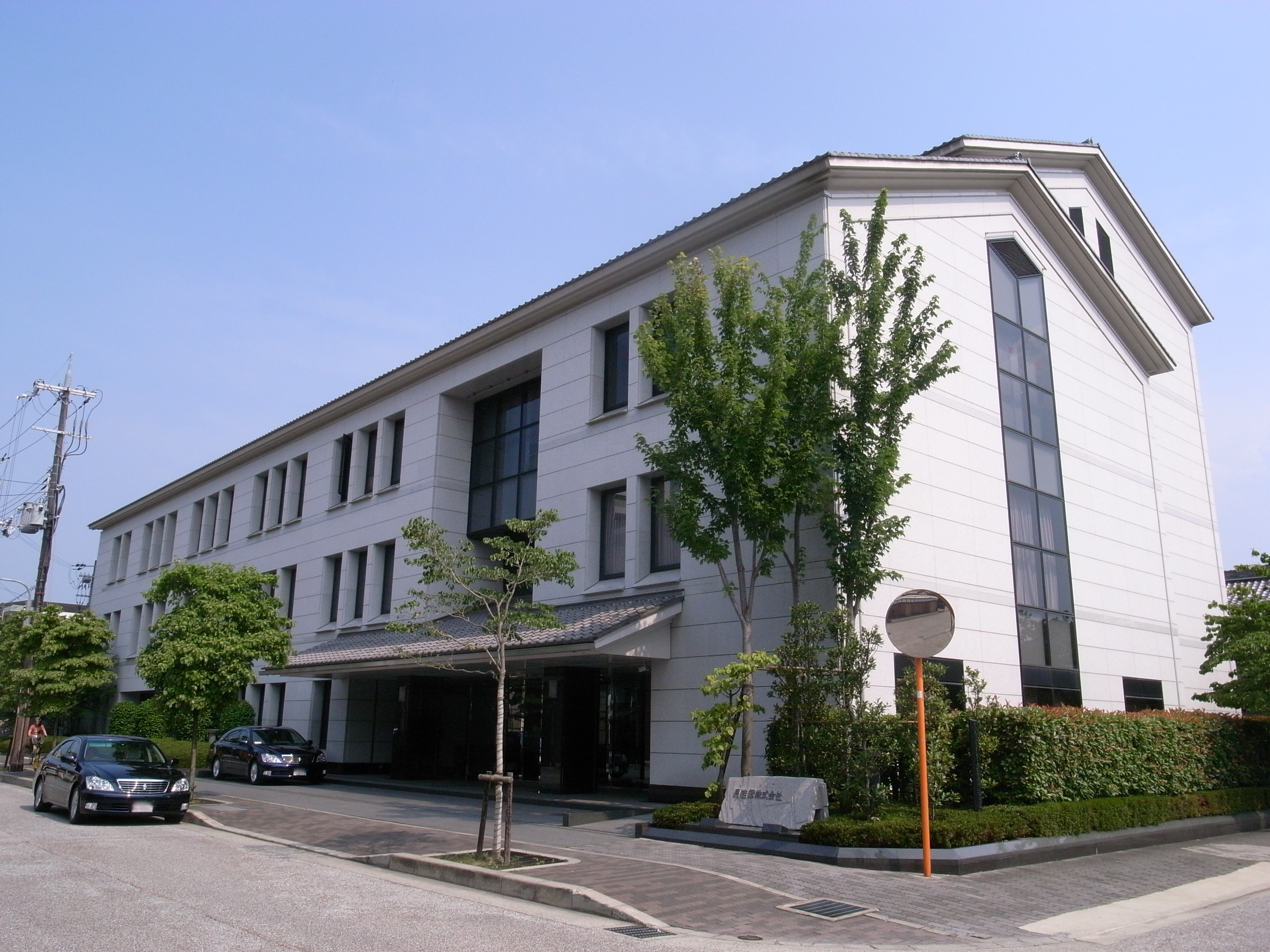 Gekkeikan Sake Company Co., Ltd head office in Kyoto, Japan.